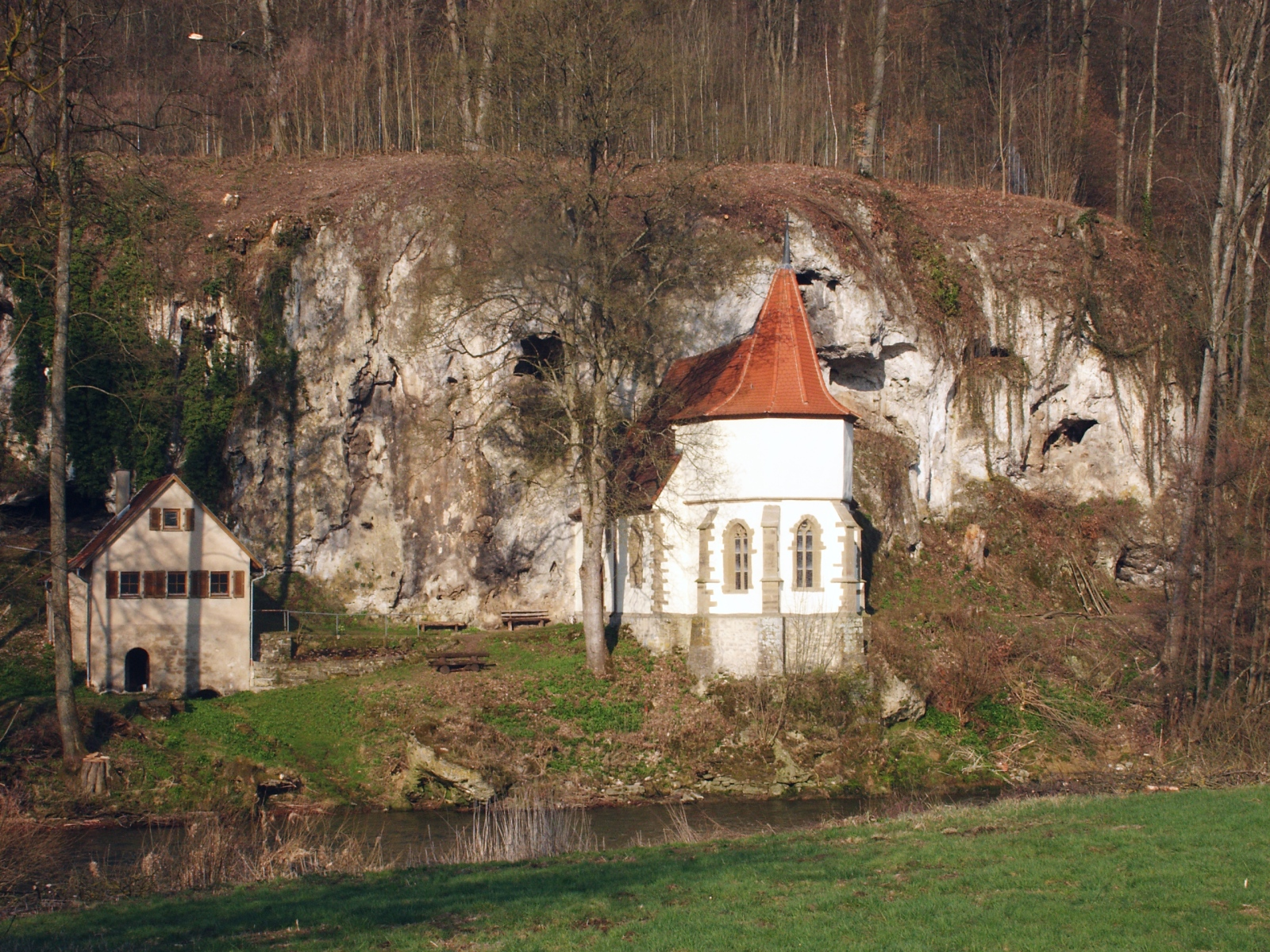 Chapel from 1515 near Dörzbach, next to river Jagst, Germany. 10m high petrified „Calcereous Tuff" deposit (carbonate rock). Use as quarry disclosed several primary caves. The Karst springs sedimenting since Holocene period are still active.